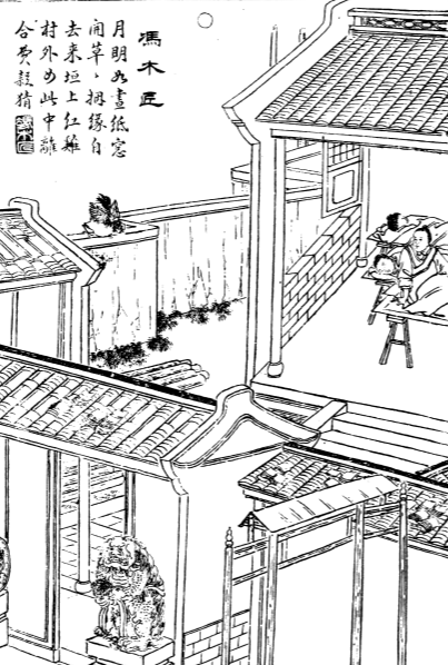 19th-century illustration of a scene from the short story "Feng the Carpenter" collected in Strange Tales from a Chinese Studio (1740).